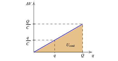 Aumento da diferença de potencial no condensador, em função da carga nas armaduras.